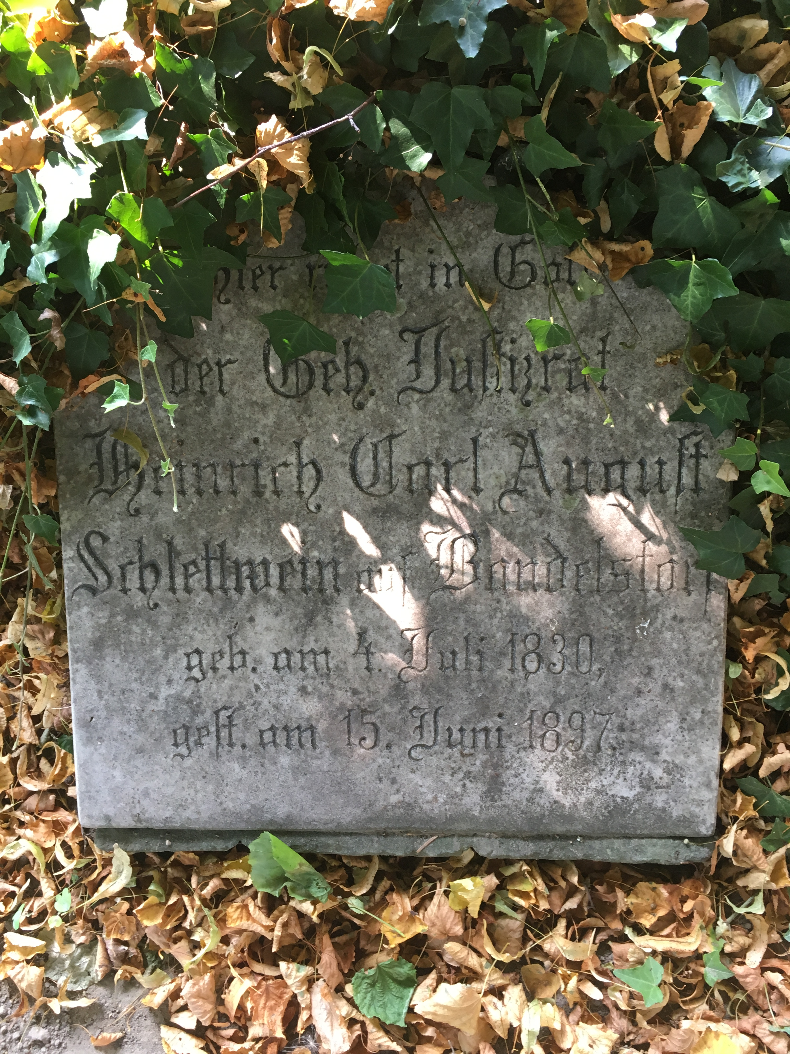 Burial of the Schlettwein family on the churchyard of the church in Petschow.